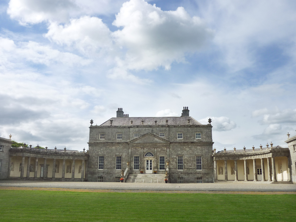 Russborough House - Part of the facade